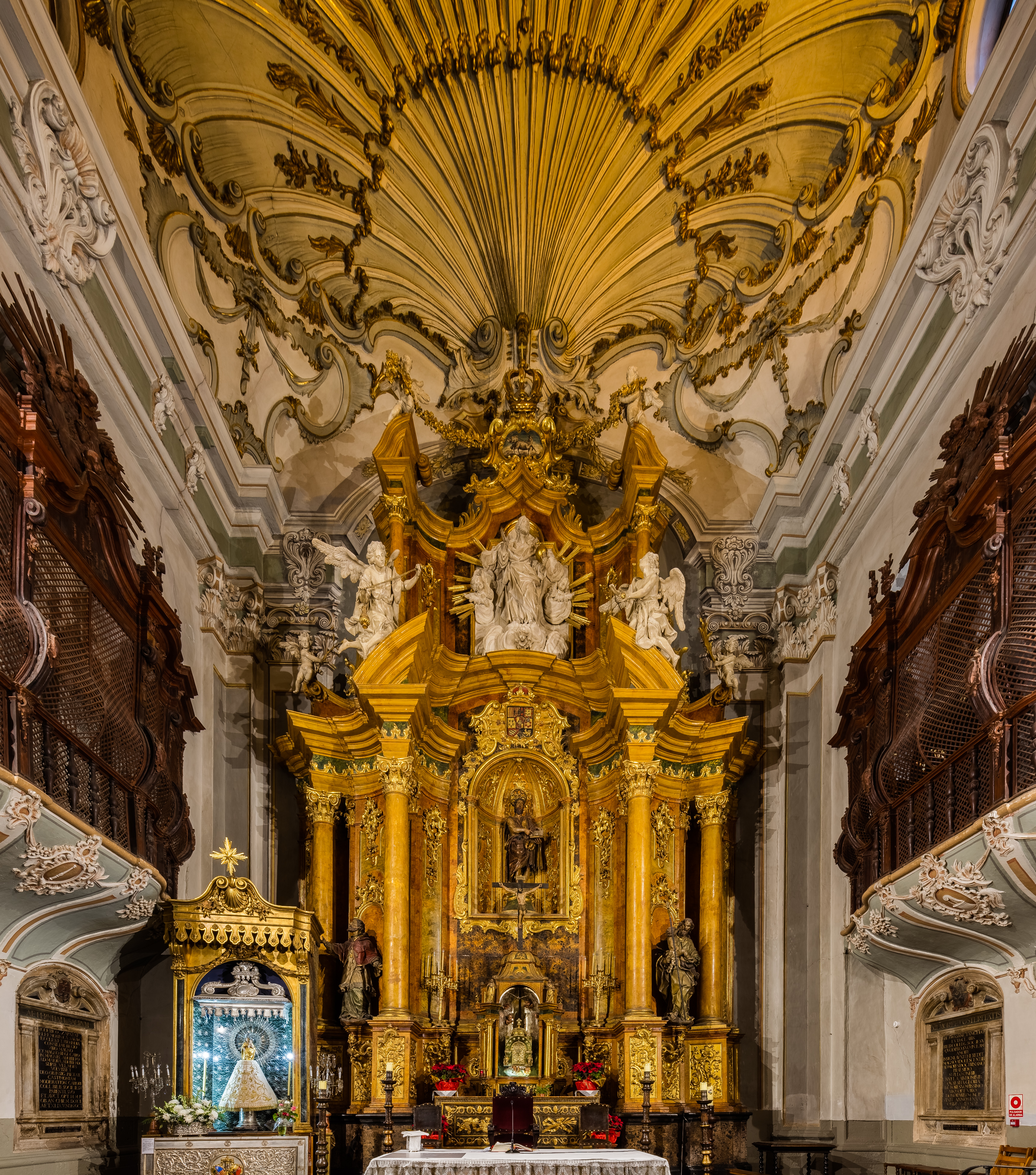 Church of San Juan el Real, Calatayud, Spain